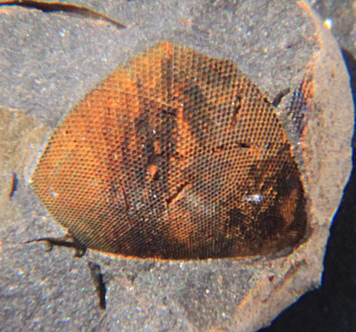 Part of an eye of the trilobite Pricyclopyge binododa, 8mm wide, Class Asaphida, Family Cyclopygidae, found in the Sarka formation, near Rokycany, Czech Republic, from the Ordovician.